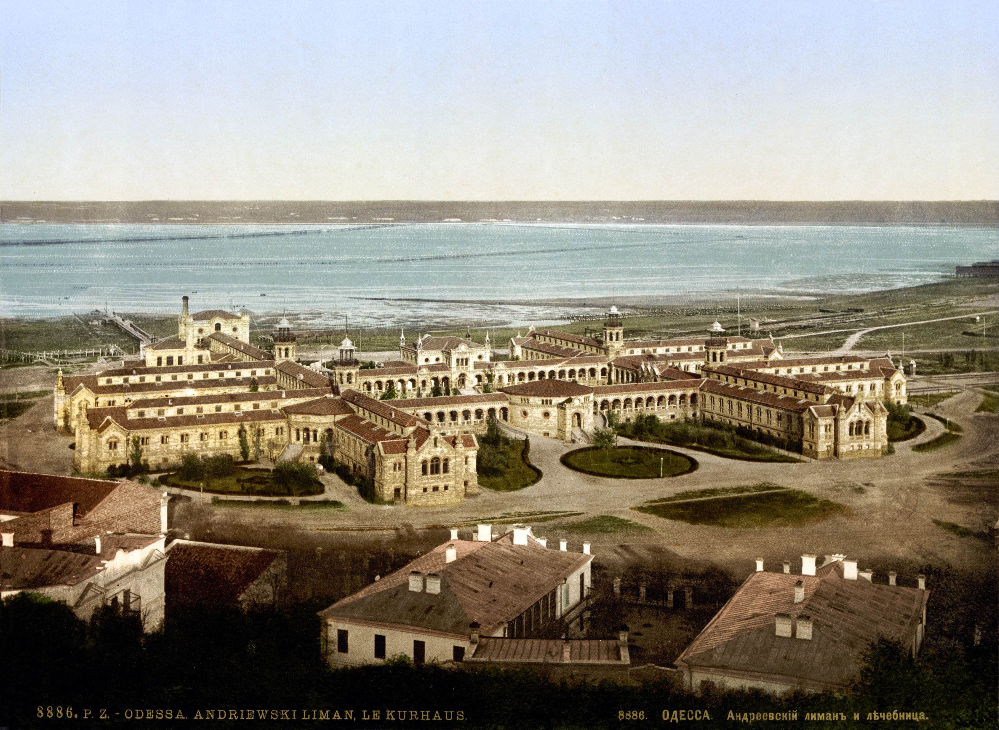 Kuyalnyckyi (formerly Andrewski) Liman, the Kurhaus, Odessa, Russian Empire